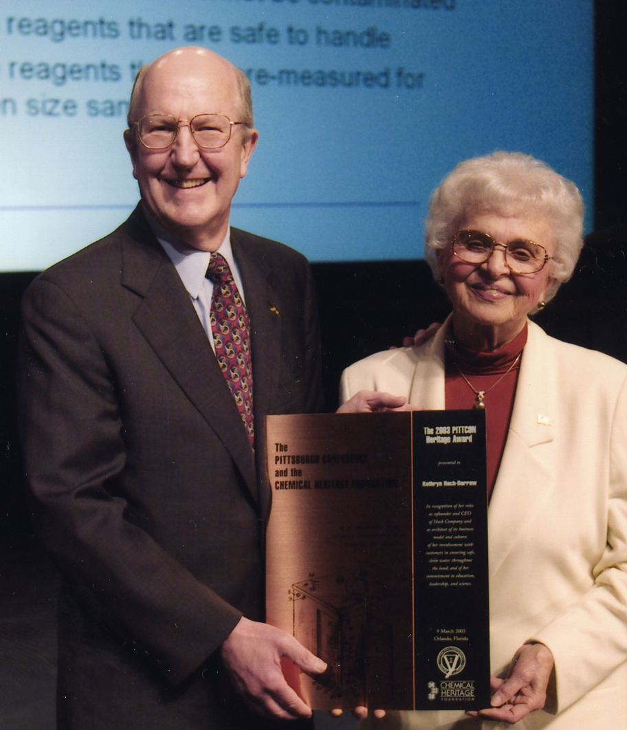 Photograph of Kathryn 'Kitty' Hach-Darrow (right) receiving the 2003 Pittcon Heritage Award from Arnold Thackray (left), head of the Science History Institute. The award is jointly sponsored by the Pittsburgh Conference on Analytical Chemistry and Applied Spectroscopy (Pittcon) and the Chemical Heritage Foundation.